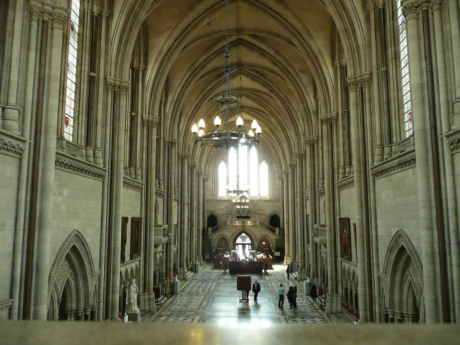 Royal Courts of Justice hall, London